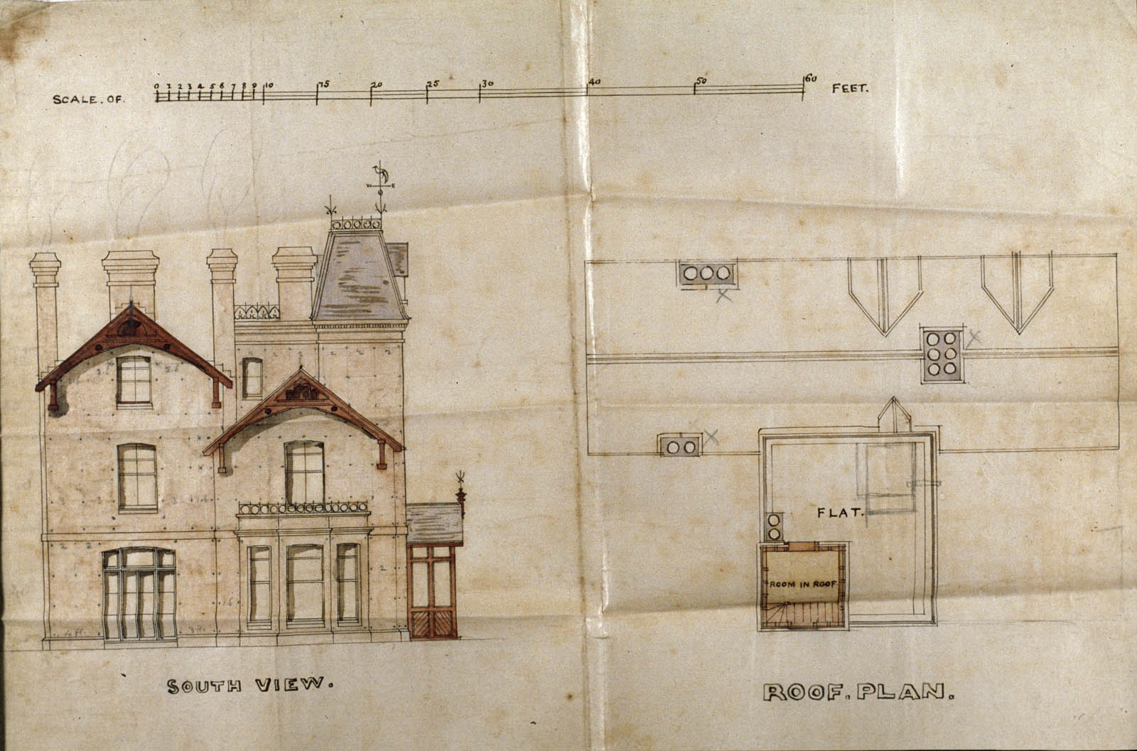 Architectural plan of The Dell, Grays, Thurrock, Essex by Thomas Robjohns Wonnacott (1834-1918) for Alfred Russel Wallace, 1870.